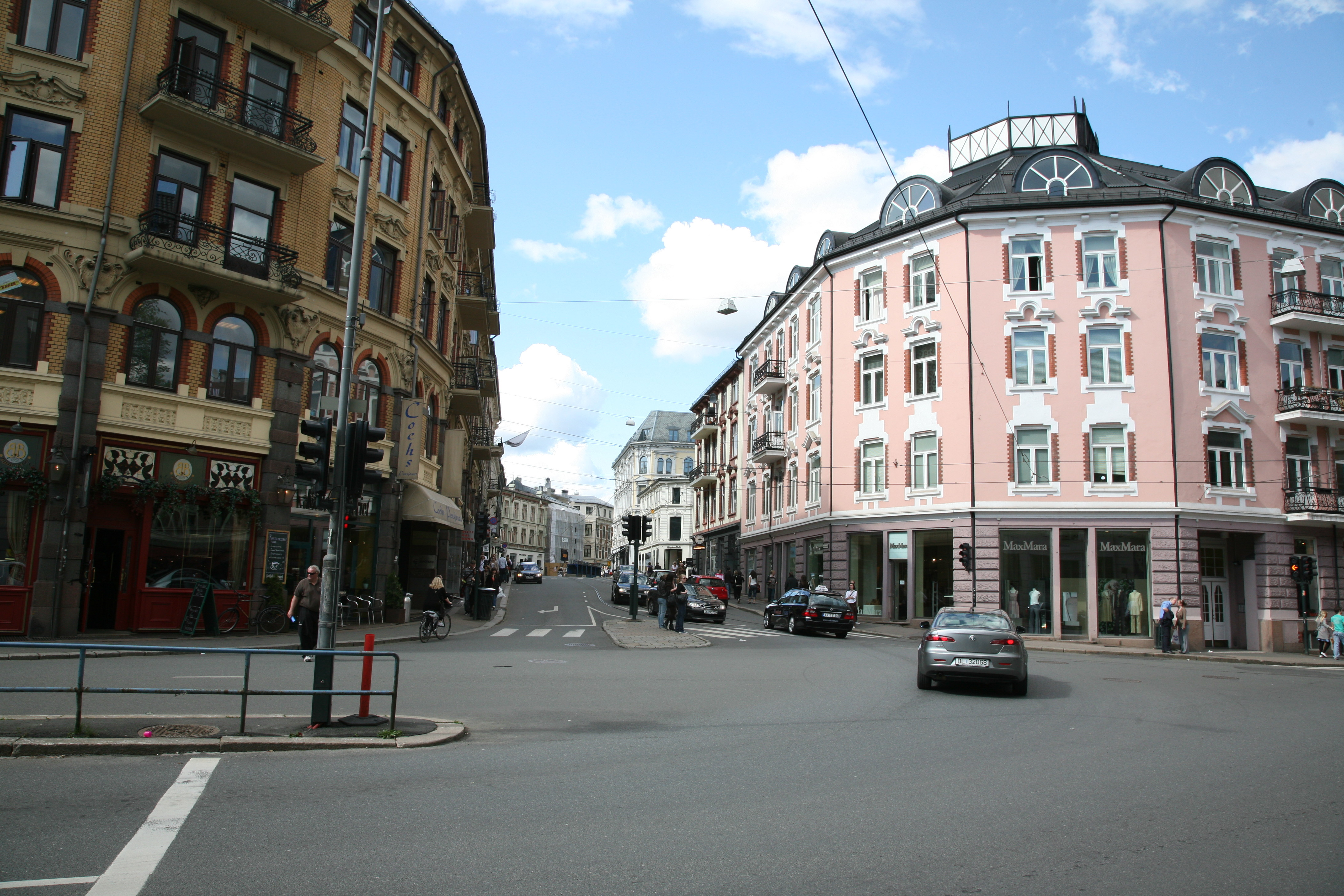 Hegdehaugsveien in Oslo, at the intersection with Parkveien